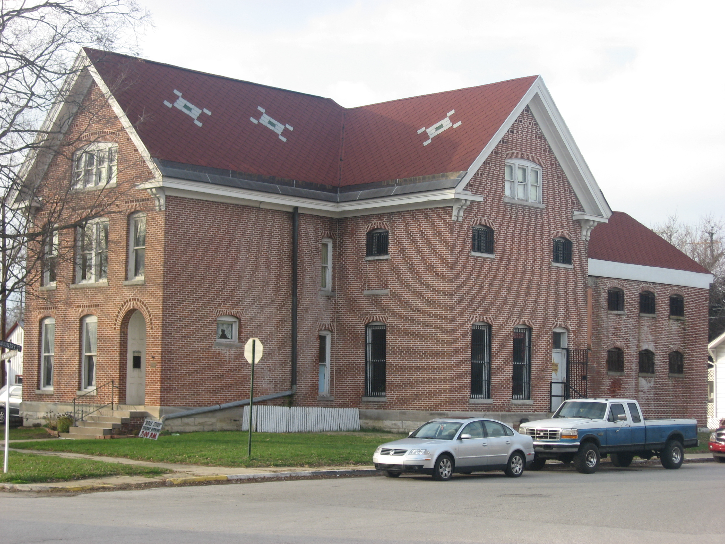 Front and eastern side of the Morgan County Sheriff's House and Jail, located at 110 W. Washington Street in Martinsville, Indiana, United States. Built in 1923, it is listed on the National Register of Historic Places.